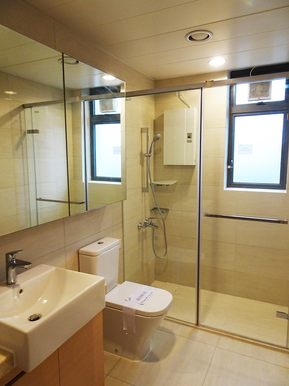 De Novo in Kai Tak, Hong Kong.